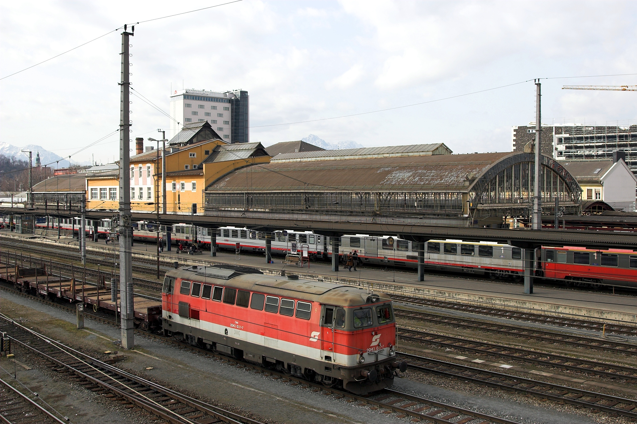 Salzburg Hauptbahnhof, station building on the island platform. A class 2043 diesel is shunting a rake of goods wagons.